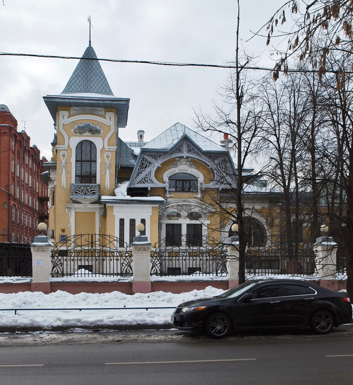 3rd Rybinskaya Street, Moscow. The Johann-Leonard Ding mansion.